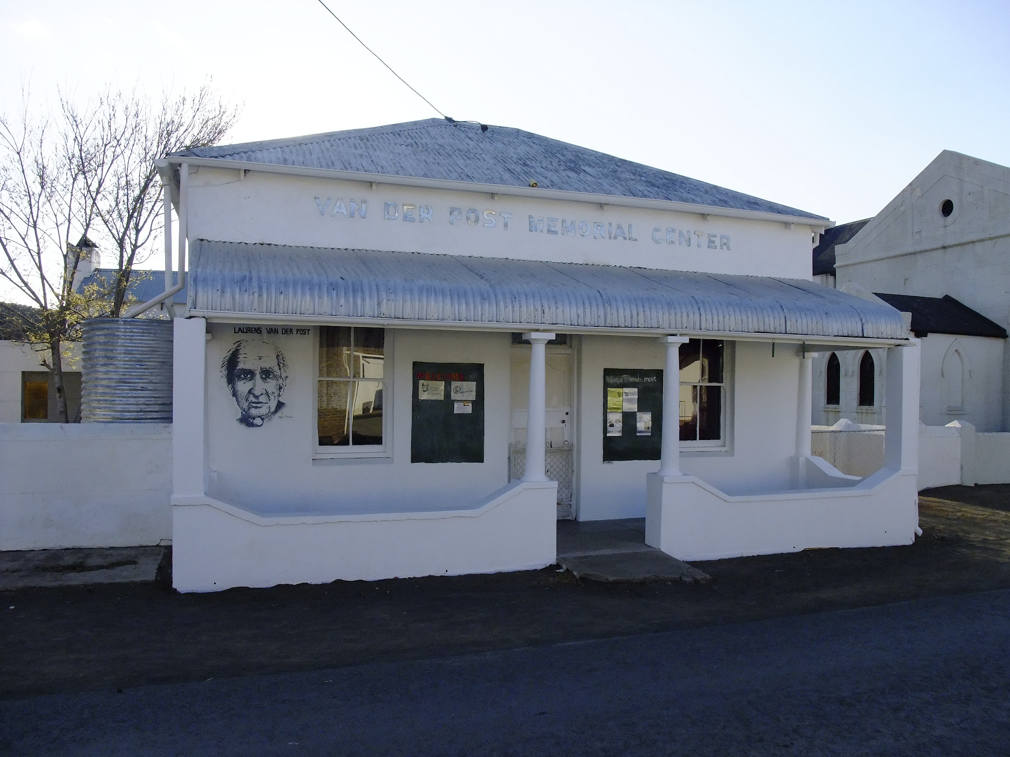 Van der Post Memorial Center in Philippolis This media shows a South African Protected Site with SAHRA file reference 9/2/331/0001.